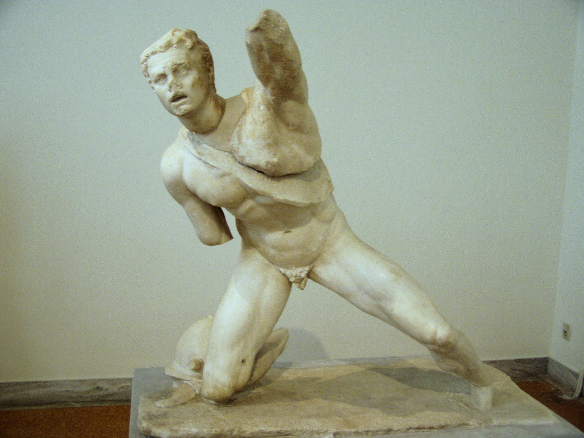 Statue of a fighting Gaul at the NAMA, Nr 247.